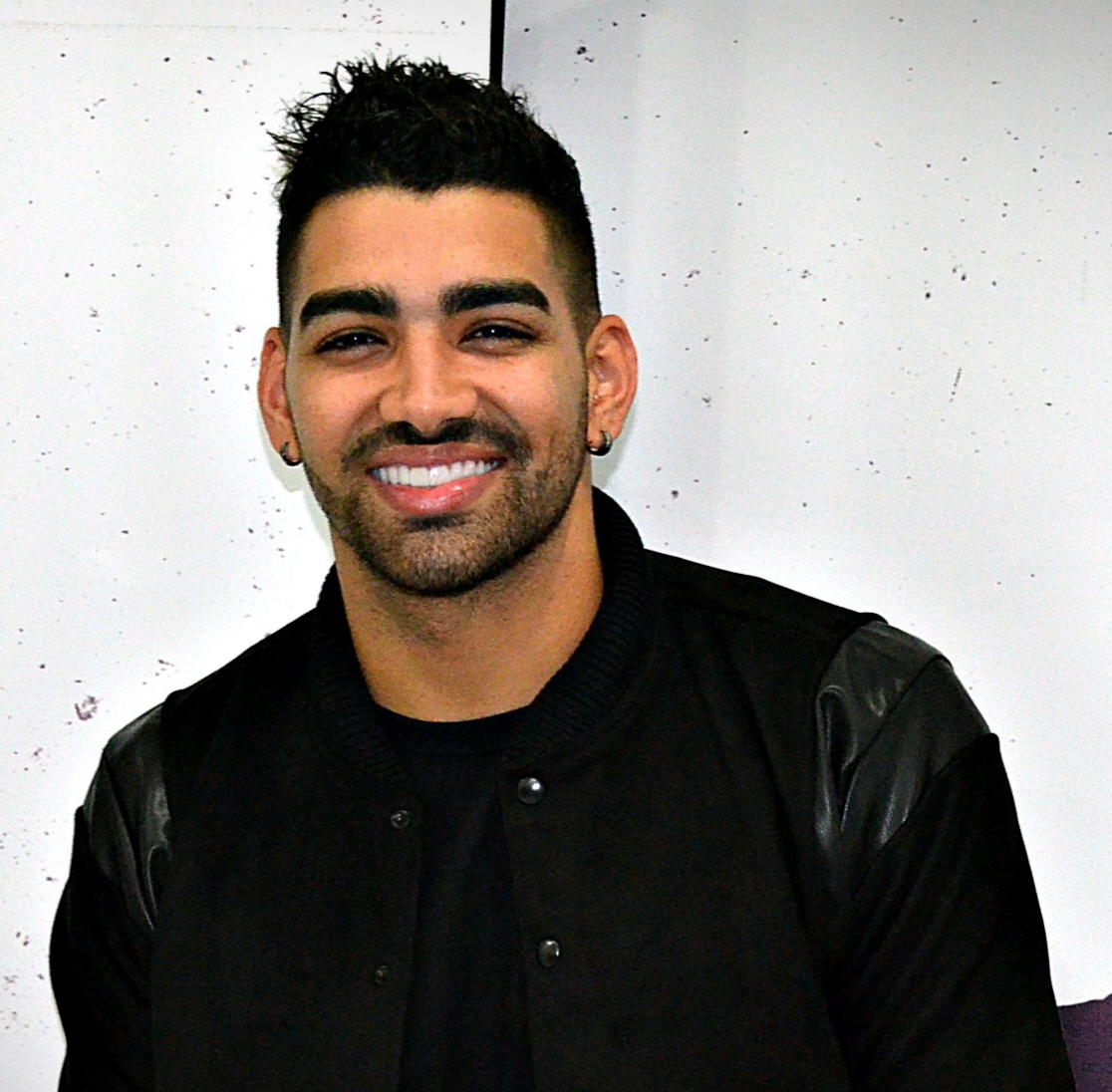 Dilsinho em 2018